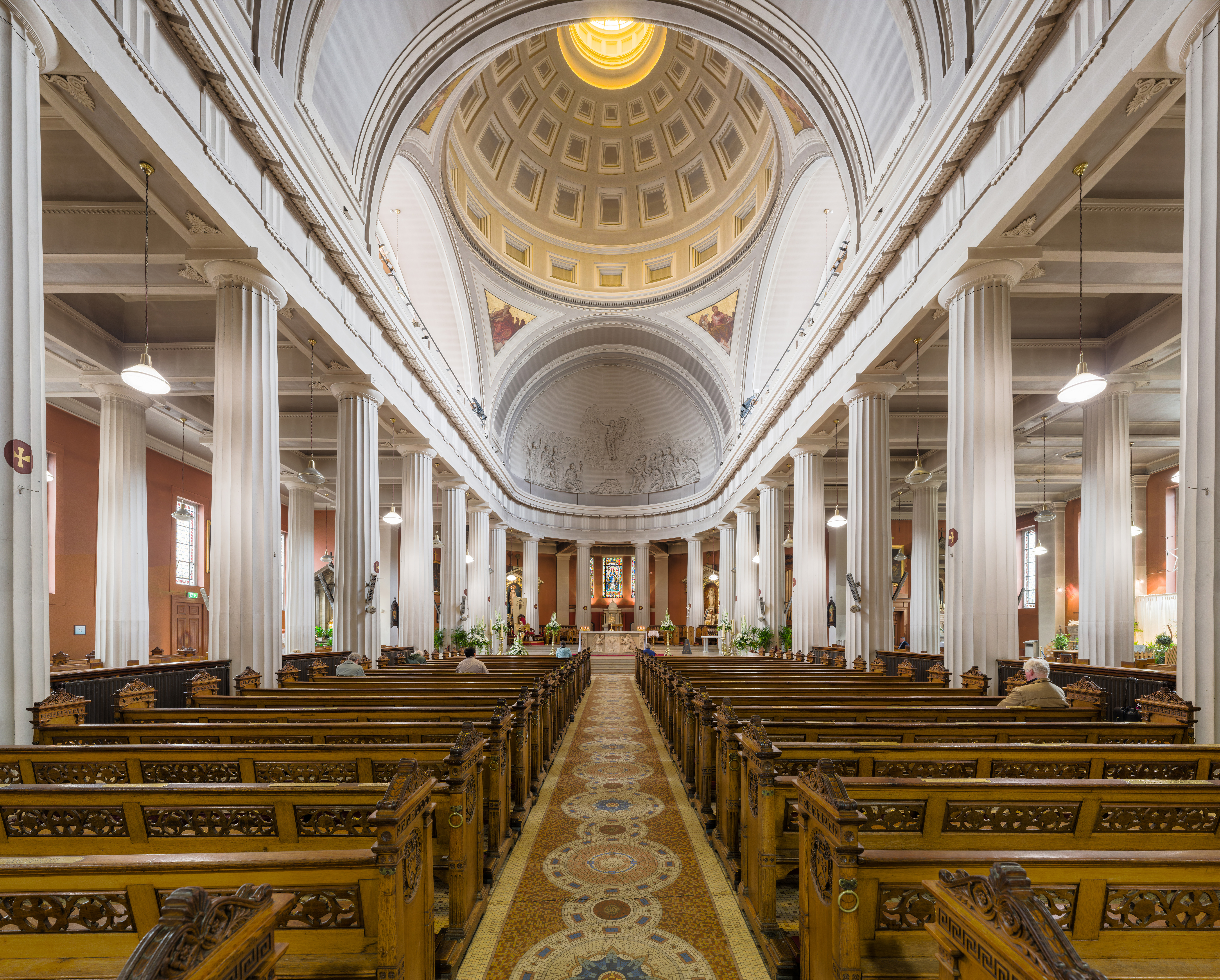 The interior of St Mary's Pro-Cathedral in Dublin, Ireland.